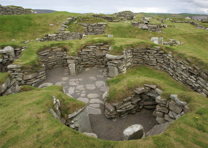 Jarlshof, Shetland, Scotland - bronze age smithy